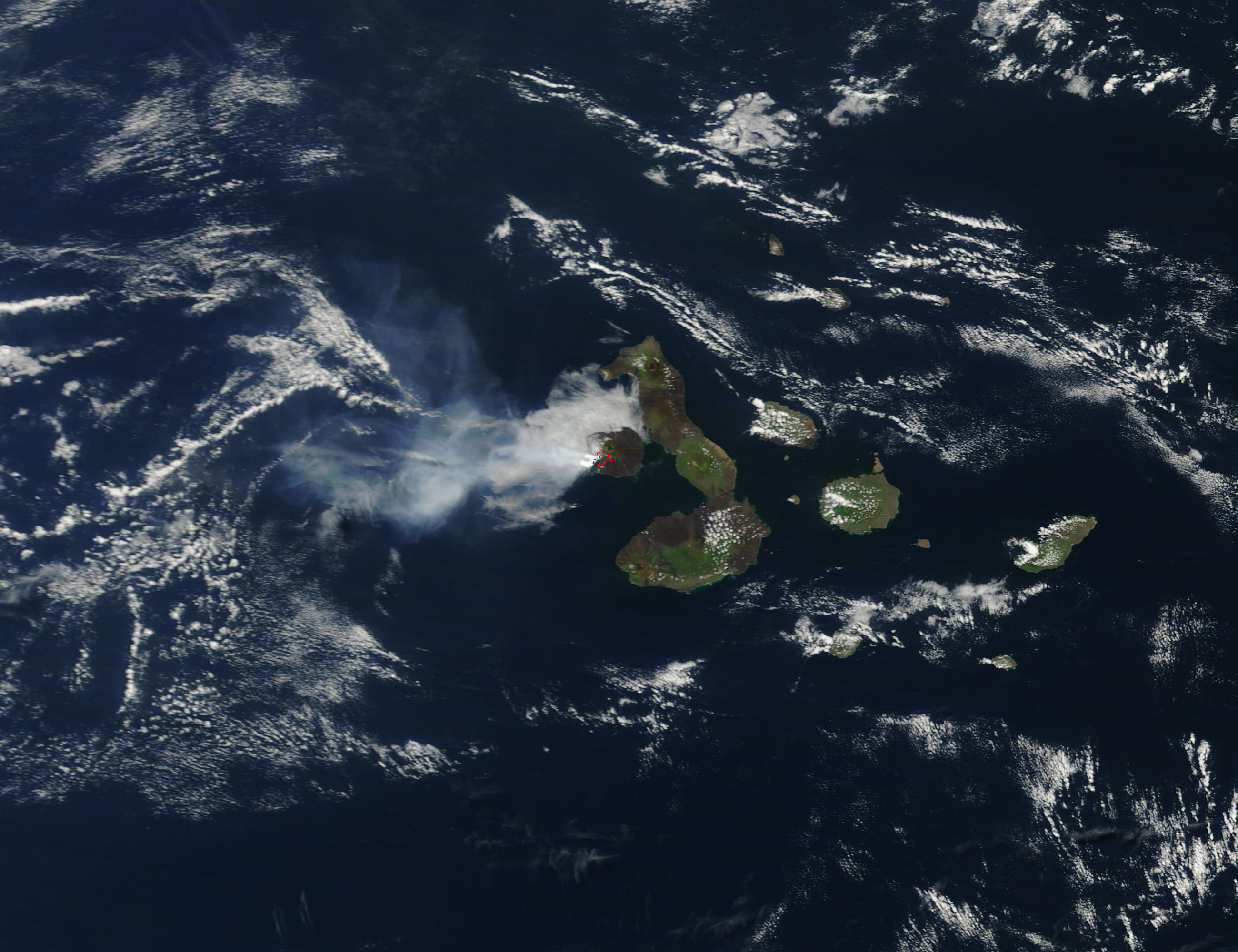 This true-color image shows Isla Fernandina and its neighbor, Isla Isabela. A bank of clouds encircles the northern and western part of the island; a volcanic plume—probably ash and steam—streams westward (left) and spreads out over the ocean. The plume’s contours are more diffuse than the contours of nearby clouds.